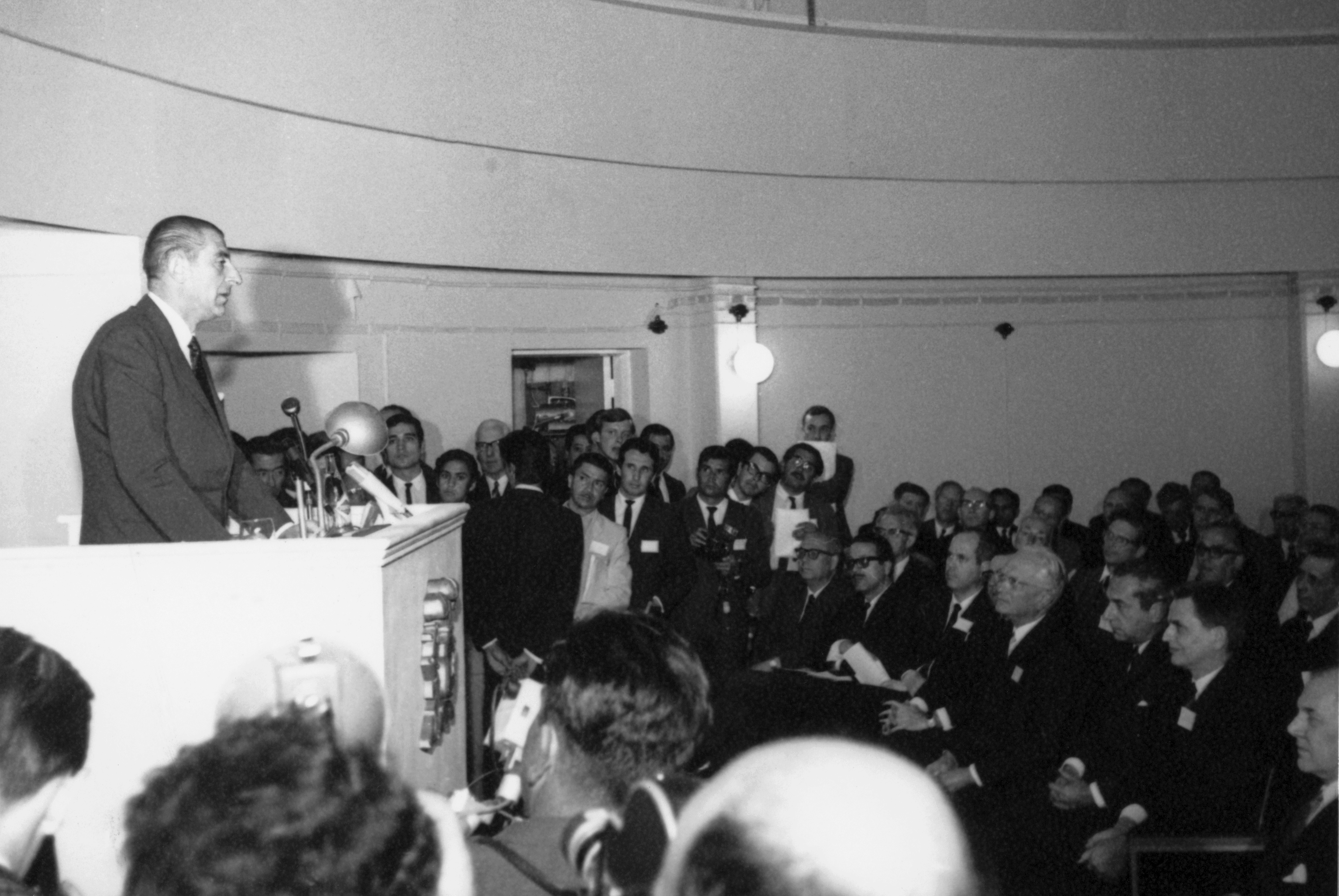 The President of the Republic of Chile, Eduardo Frei Montalva, pronouncing the inauguration of the La Silla Observatory before the ESO Council, various Chilean government authorities, representatives of other scientific institutes and ESO staff members on March 25, 1969.